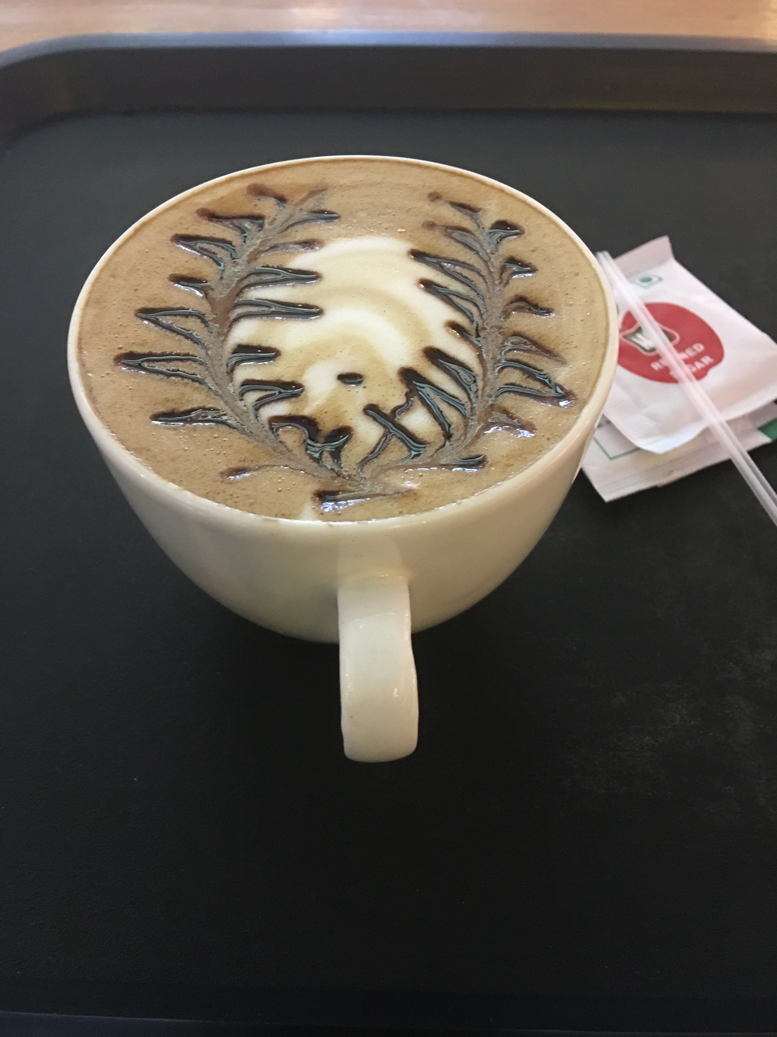 a cup of coffee